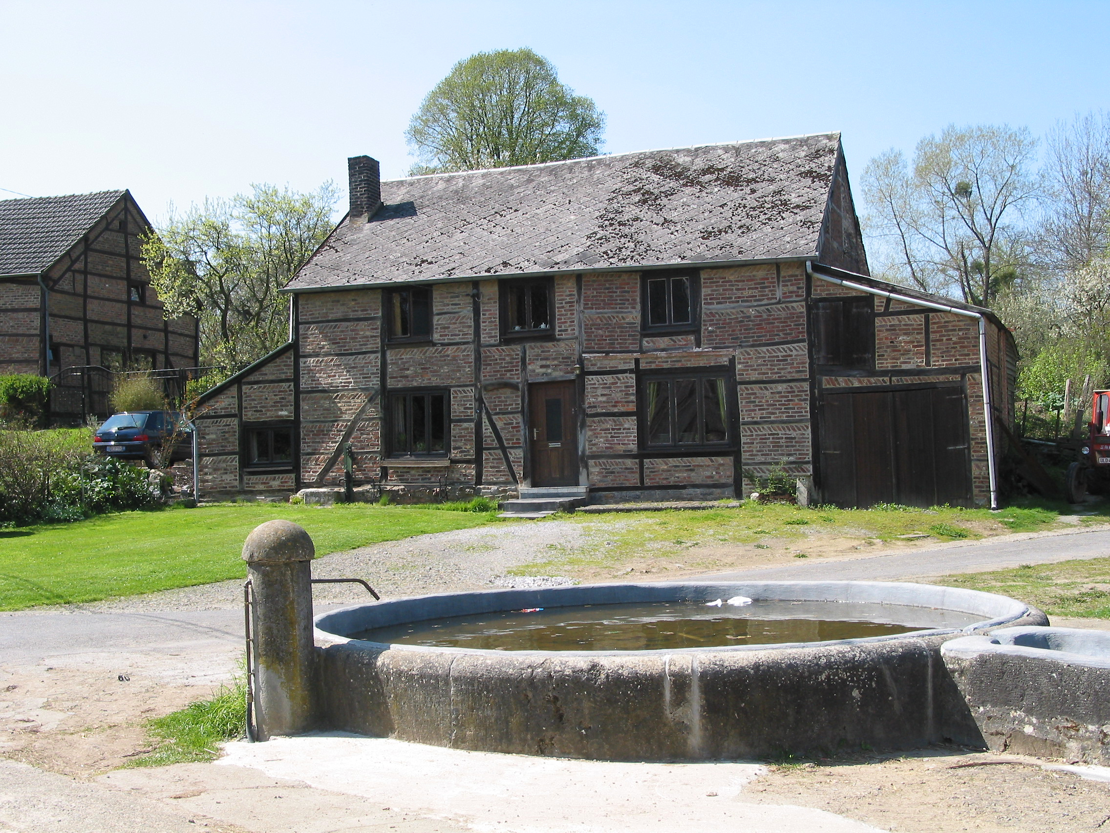 Vonêche (Belgium), typical half-timbering house. Watering trough. Walon: Vonnèche (Bèljike), môjon typike a palons.